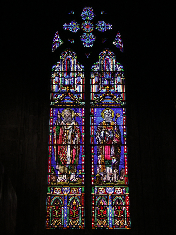 St. Peter's Cathedral, Vannes, Morbihan, Bretagne, France. Stained-glass window of the chapel of St. Meriadec (right) and St. Patern (left, first bishop of Vannes).